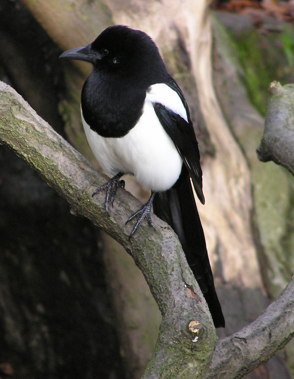 European Magpie Pica pica in Gloucestershire, England.